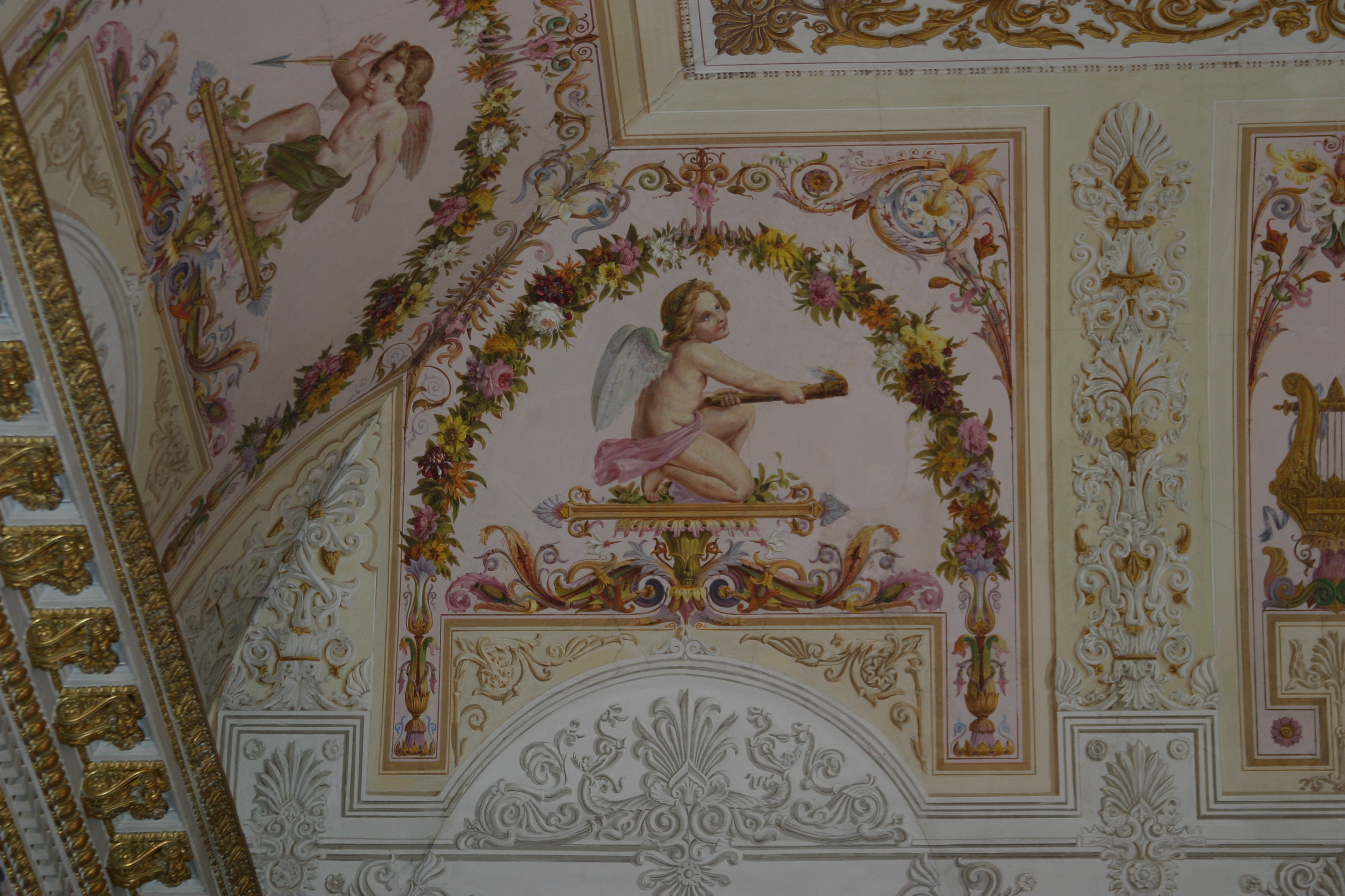 Insight of the Schloss in Wiesbaden